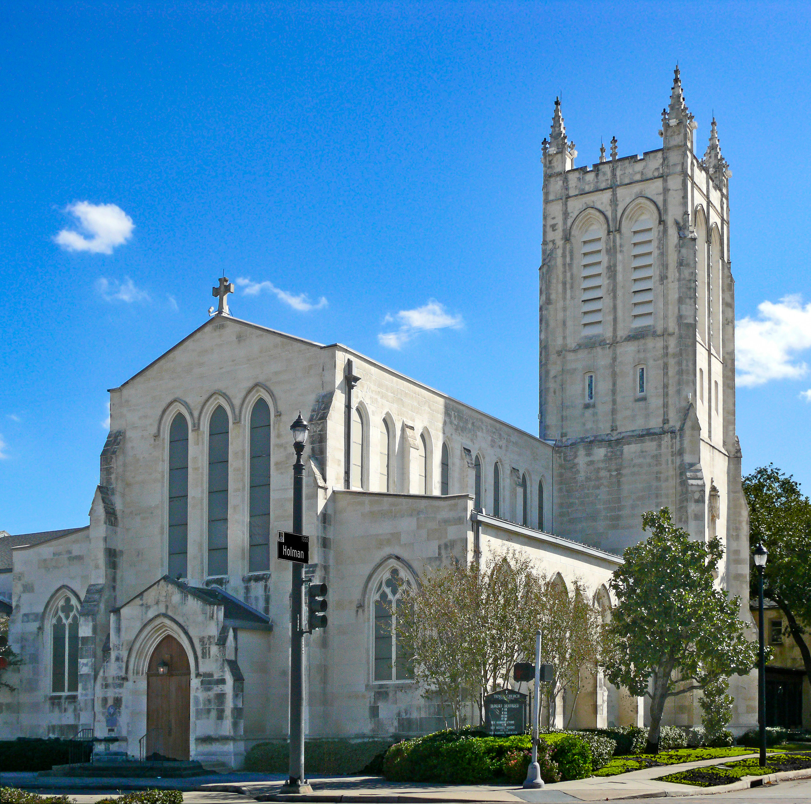 Established in 1893, Trinity Episcopal Church acquired this site in 1910. Construction of the sanctuary, designed by architect Ralph Adams Cram, began in 1917 and was completed in 1919. Features of the Gothic revival structure include a basilica plan with an offset buttressed and pinnacled tower, and art glass windows. Five rectors of the parish became bishops in the Episcopal church. Trinity Church continues to serve a large active congregation. This building is in the National Register of Historic Places Coordinates N29° 44.395 W95° 22.695